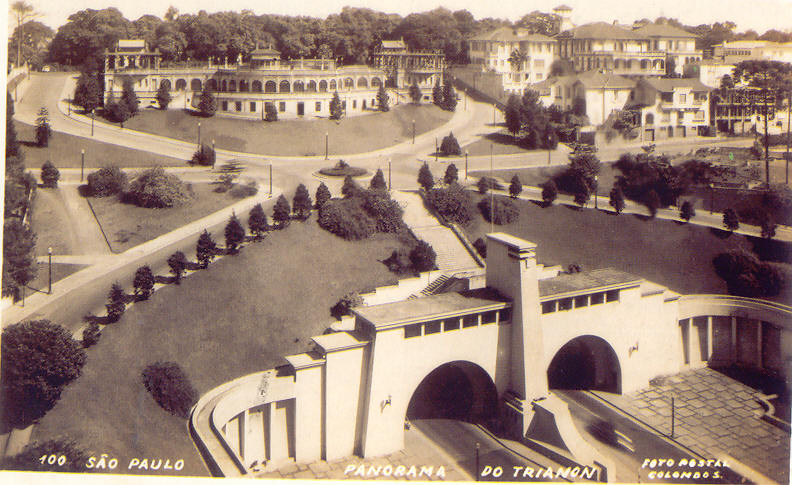 Panorama do Trianon - Foto Postal Colombo S. Nº 100